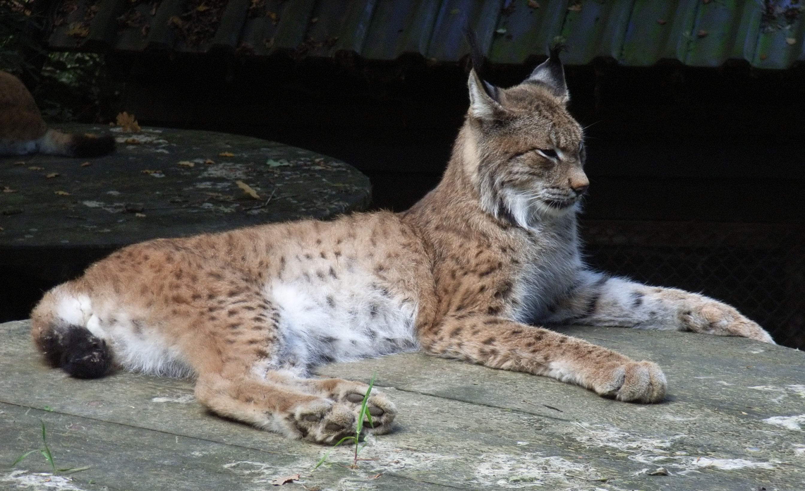 Eurasian Lynx